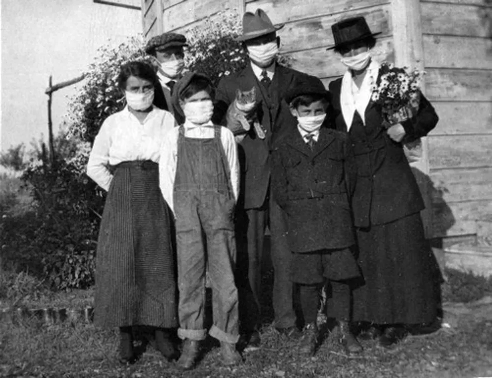 Family and their cat during the Spanish Flu, 1918. Sounds familiar